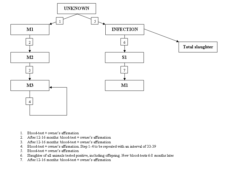 Swedish maedi-visna control programme, english version